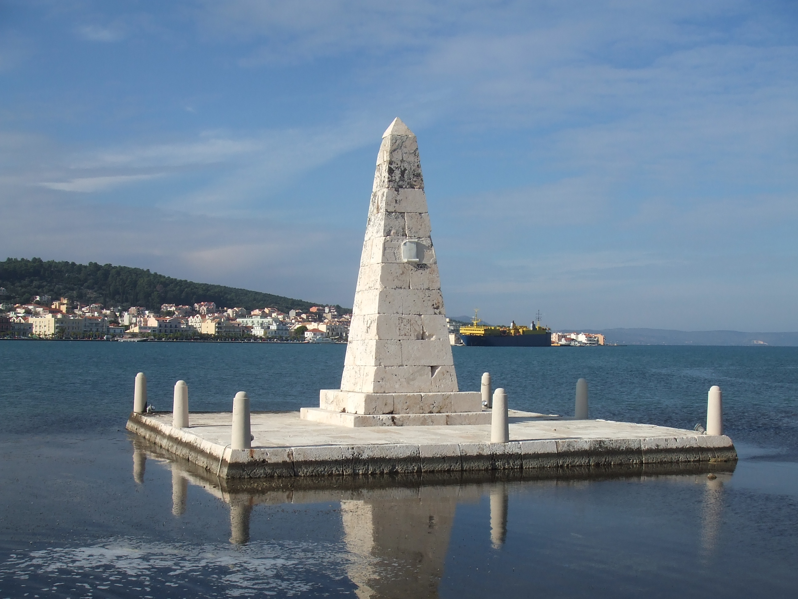 The monument for the British Administration in Argostoli.